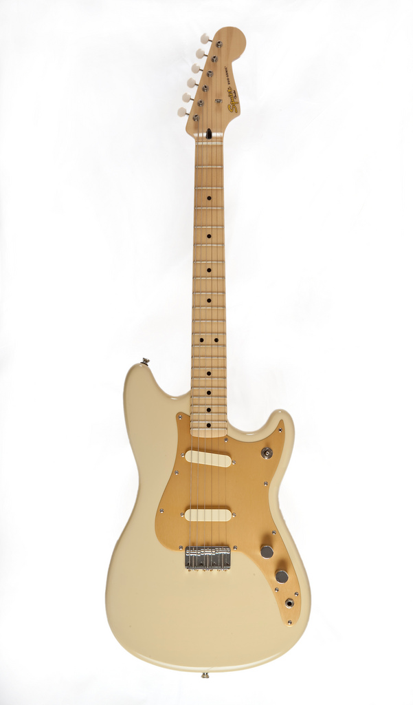 2008 Squier, Classic Vibe, Duo-Sonic